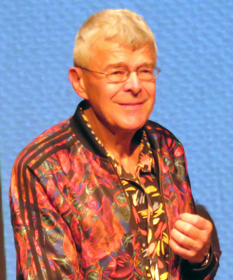 Gert Hekma (born 1951), a Dutch social historian specialized in gay studies at the University of Amsterdam, here speaking during the Mosse Lecture of 2017